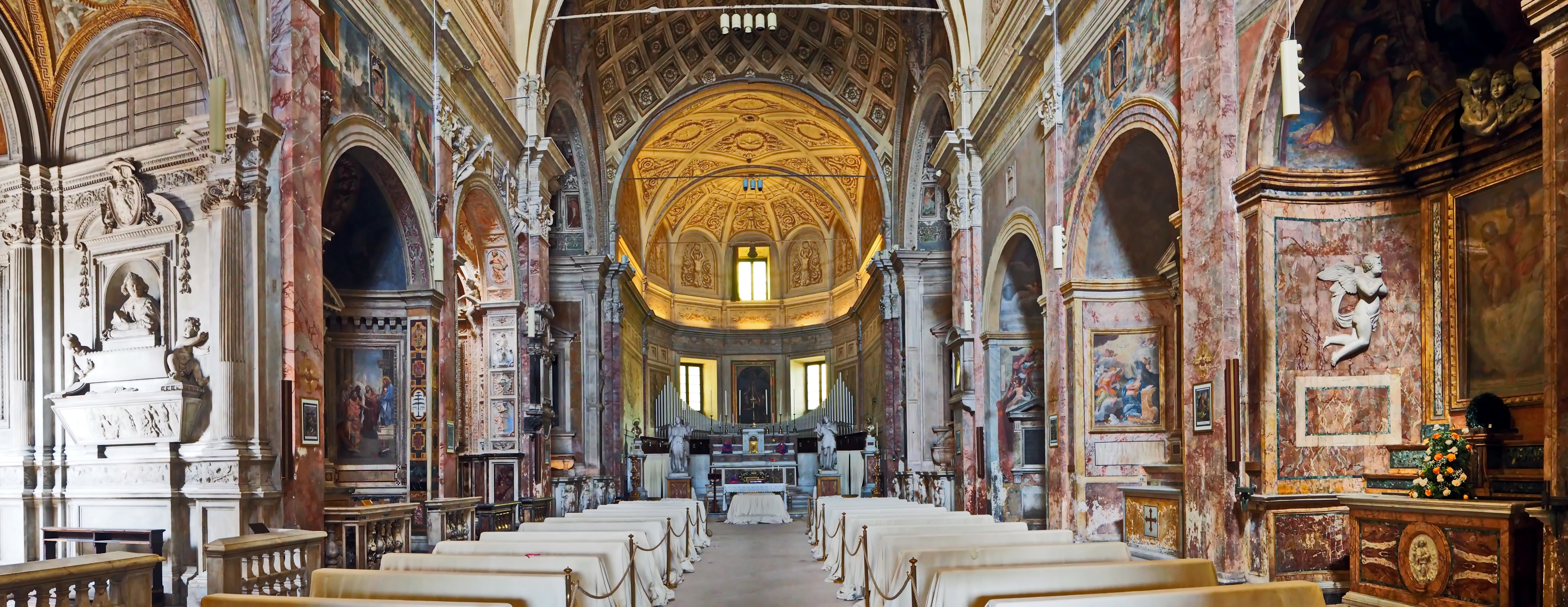 San Pietro in Montorio (Rome); Nave